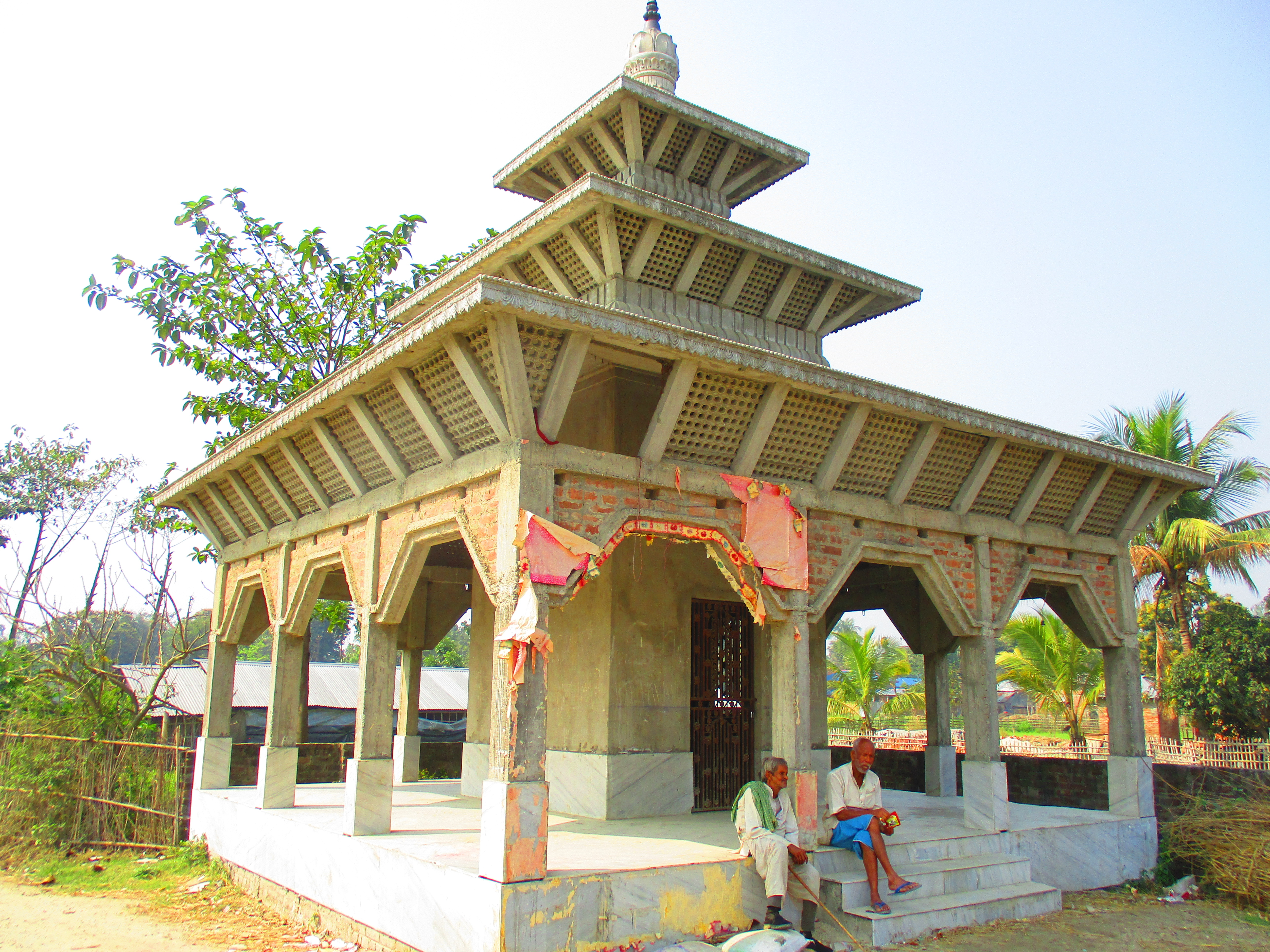 Lakhai Baba Mandir is located in Bhardah, Saptari. It is on the south of Kankalini Temple and the East-West Highway.